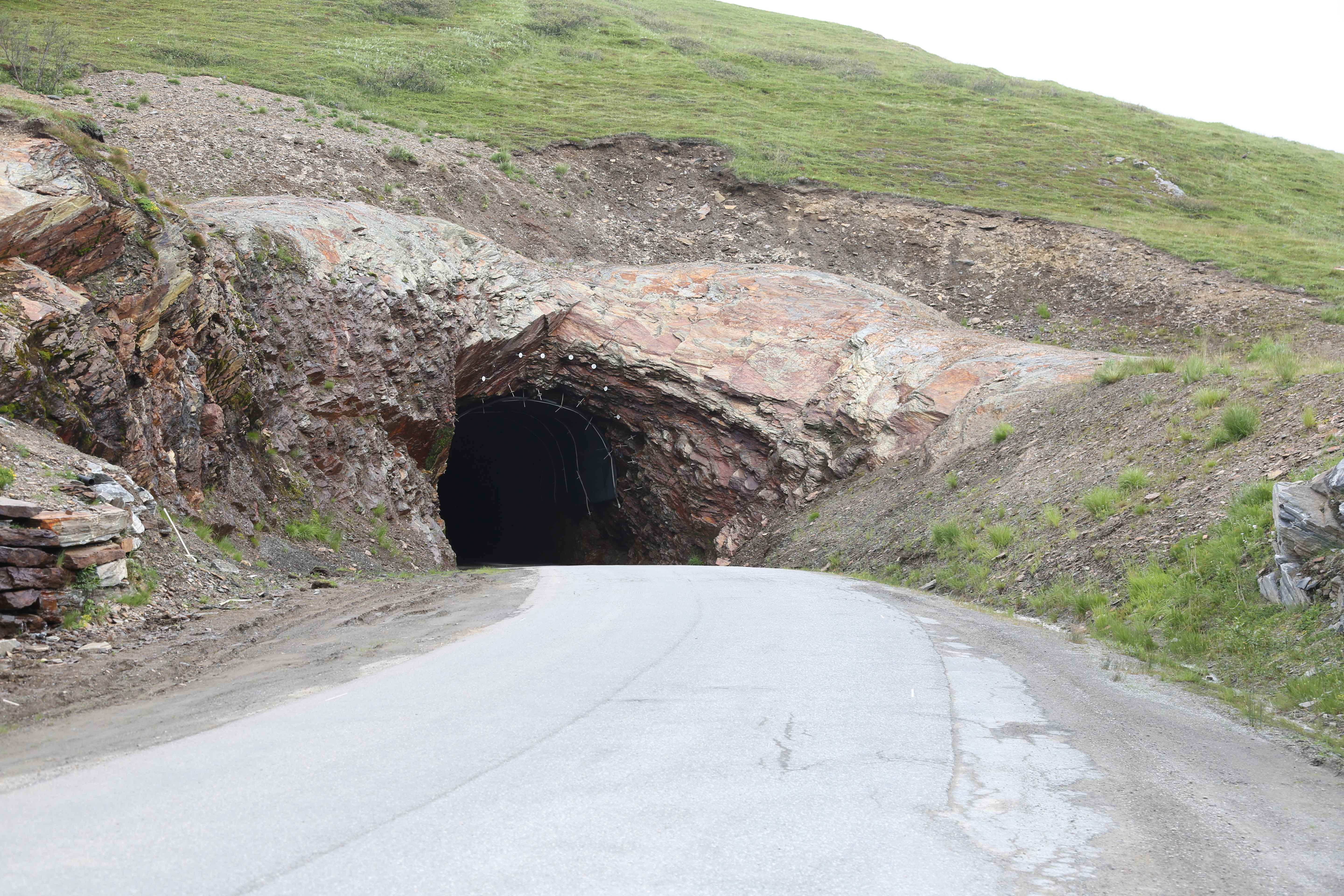 Falkebergtunnelen, Hasvik kommune, Finnmark